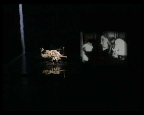 Vassilis Mazomenos film "Remembrance".